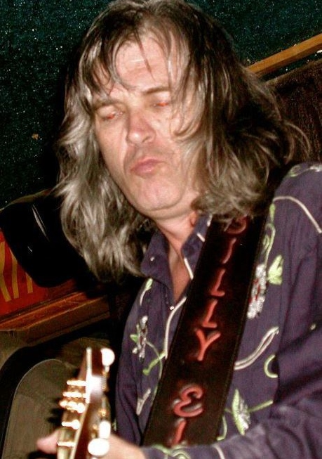 Songwriter Billy Eli performing during SXSW week 2012